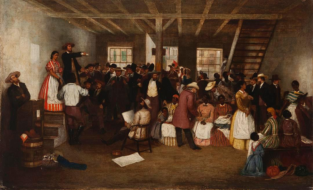 1862 painting of a Slave Auction in Richmond, Virginia, by the British artist LeFevre J. Cranstone